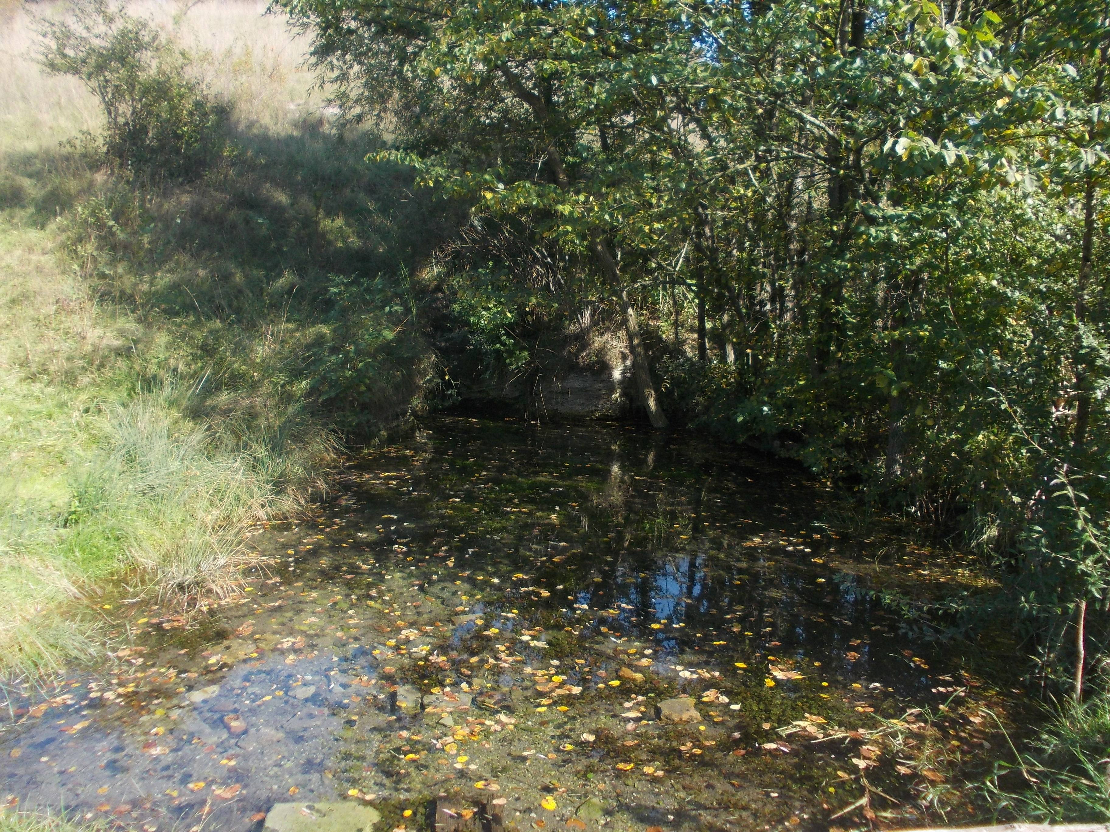 Ortalsborn, a karst spring near Spielberg (Querfurt, district: Saalekreis, Saxony-Anhalt) in the nature reserve "Schmoner Busch, Spielberger Höhe und Elstal"